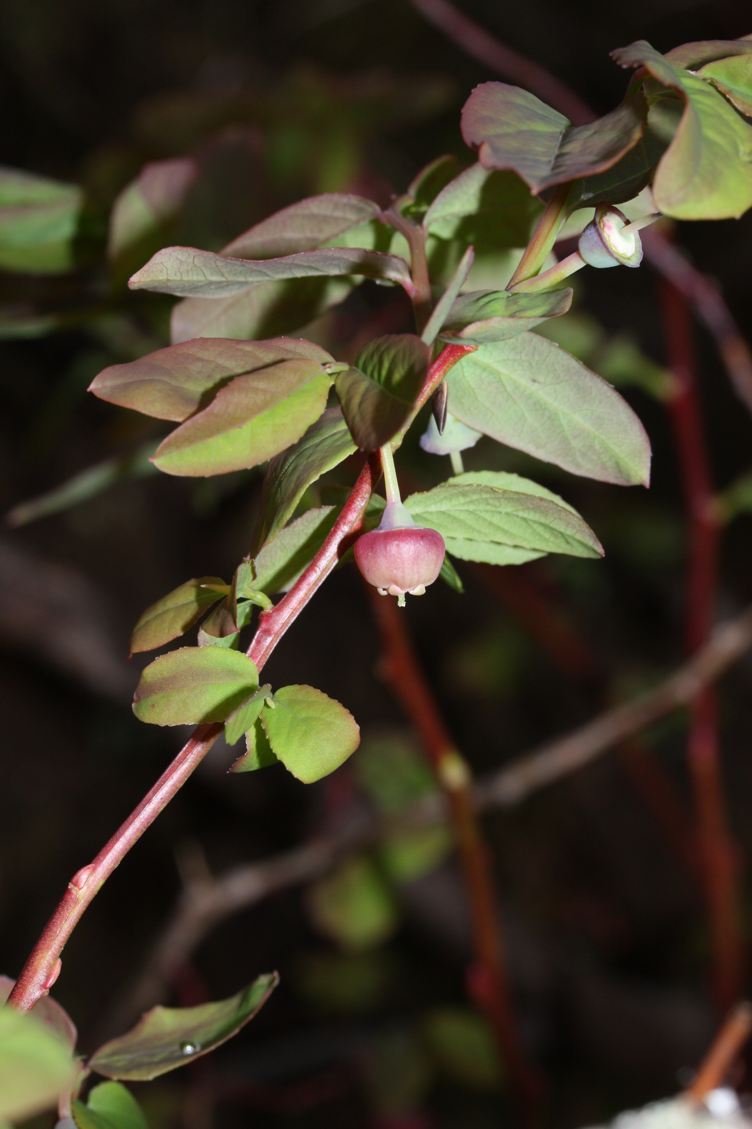 Oval-leaf Blueberry, Alaska Blueberry